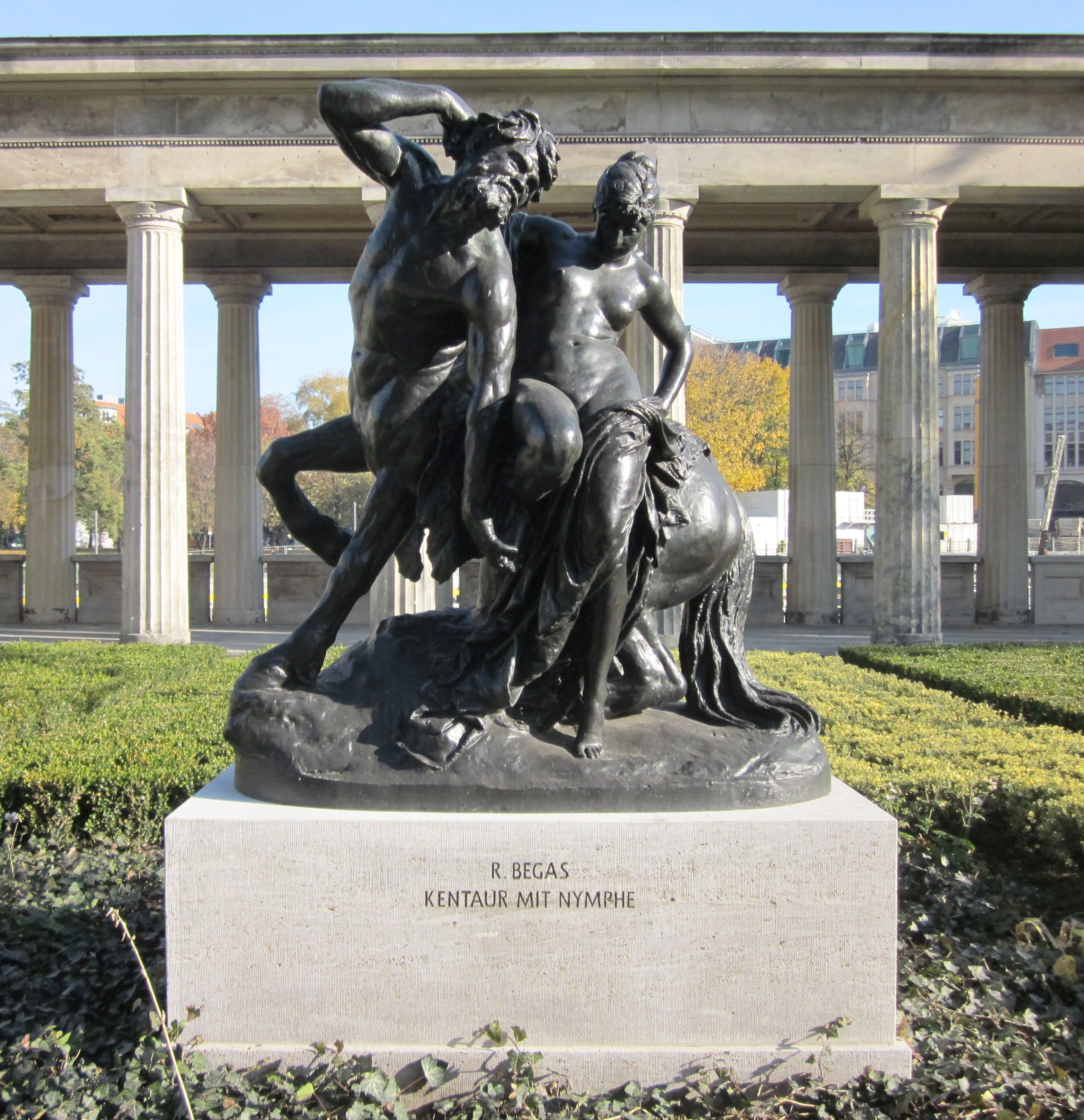 Sculpture "Centaur and Nymph" by Reinhold Begas in the front garden of Alte Nationalgalerie on Museum Island in Berlin-Mitte. It was created in 1888.